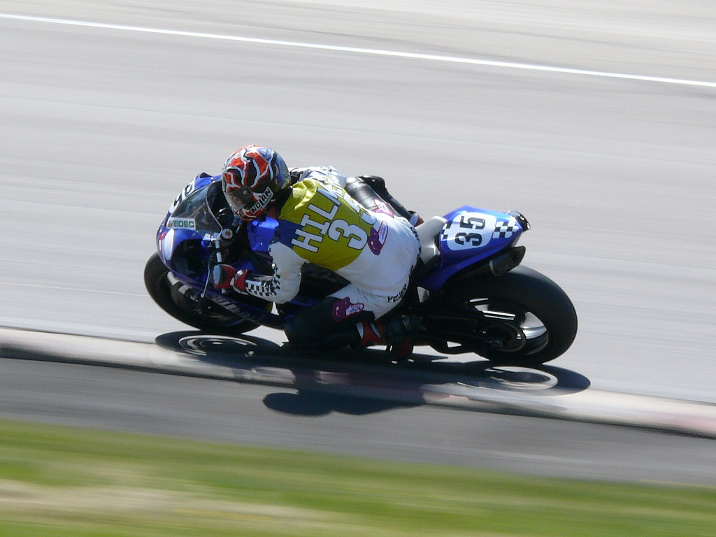 A motorbike at Knutstorp Raceway in Sweden.